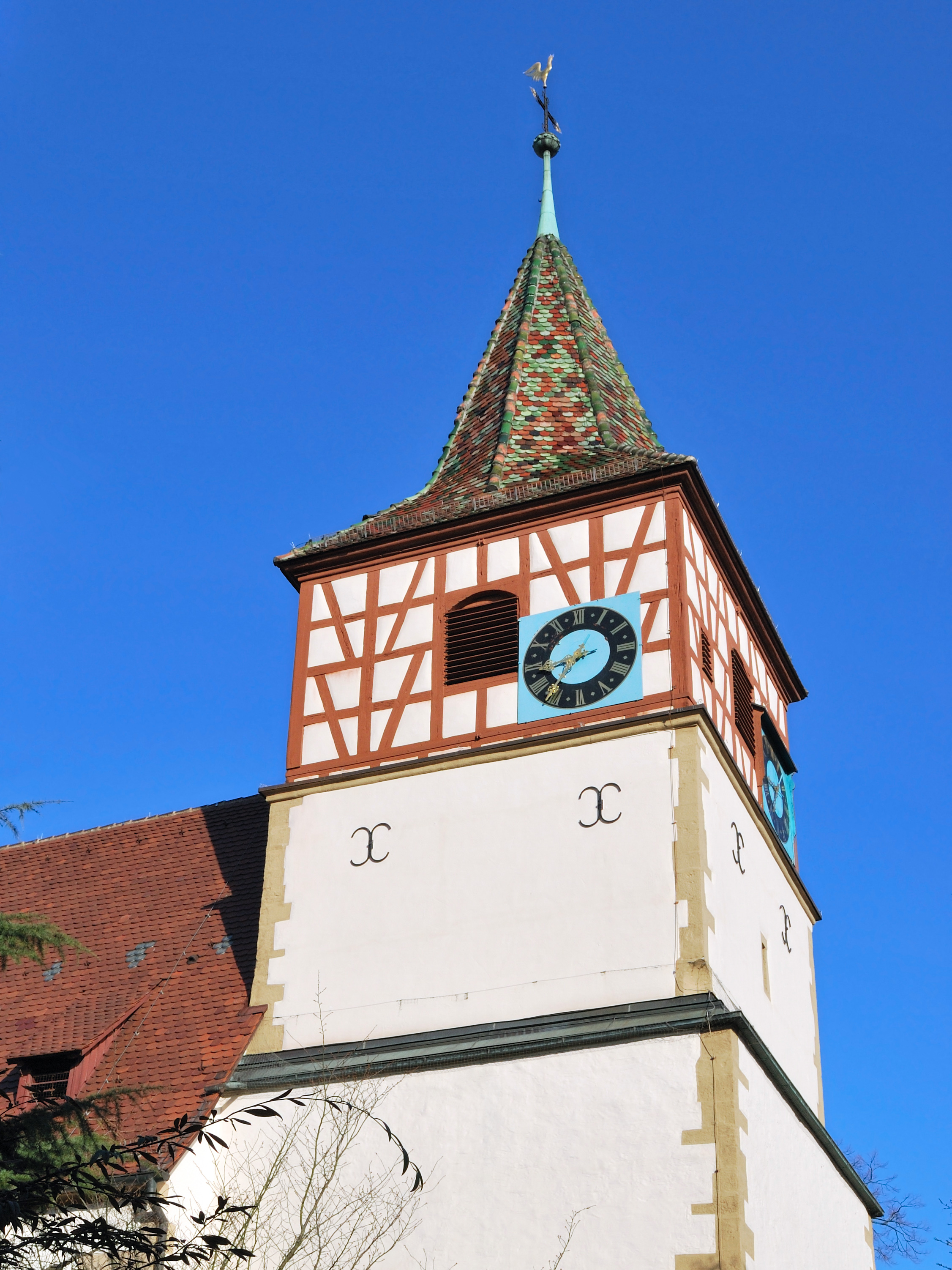 The tower of the protestant Oswald-Church in Stuttgart-Weilimdorf, a district of Stuttgart in the German Federal State Baden-Württemberg.